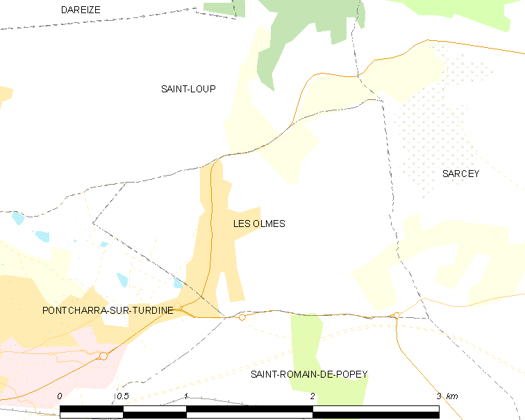 Map of French municipality